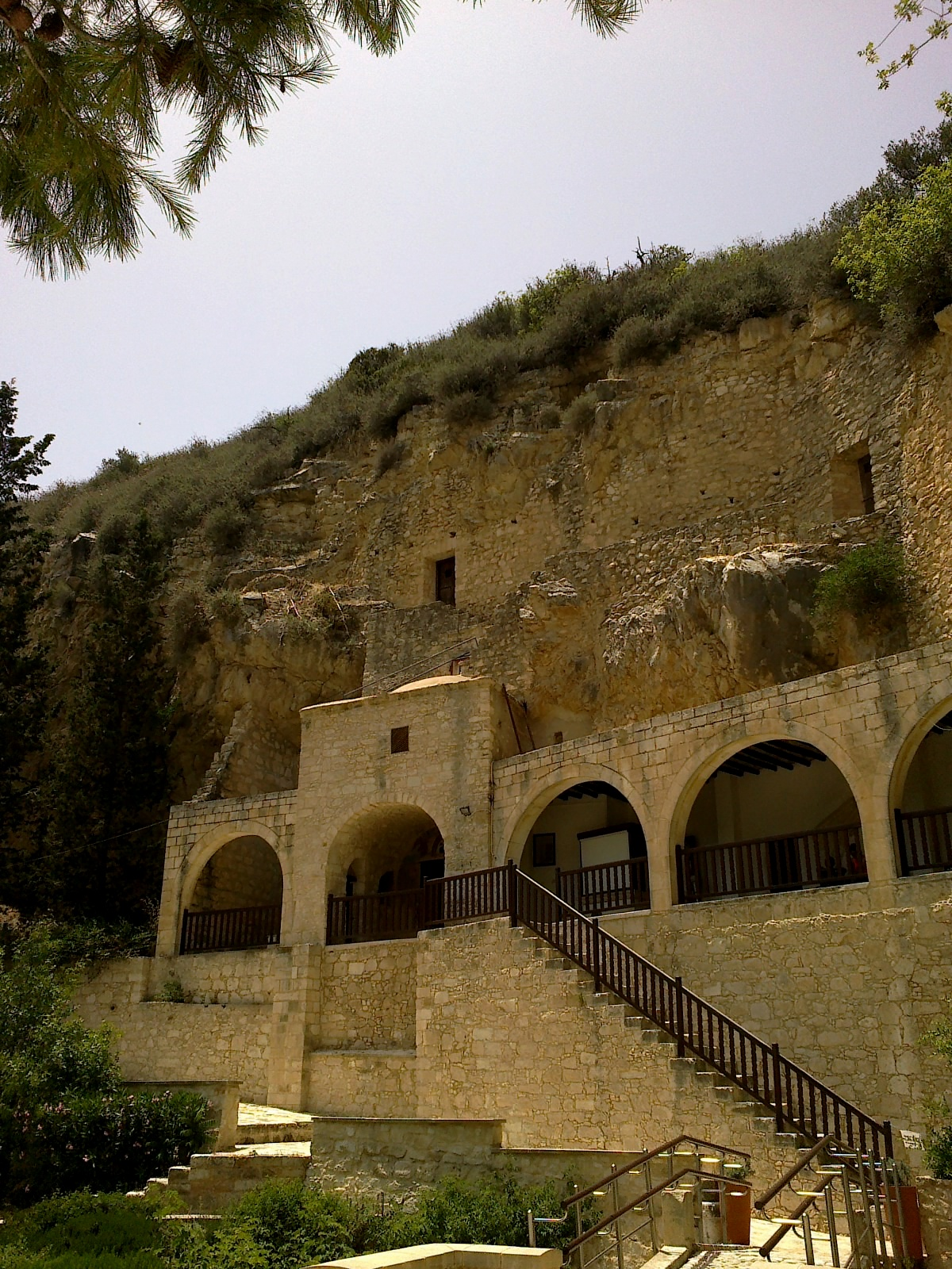 Chypre Agios Neofytos Monastere Troglodyte